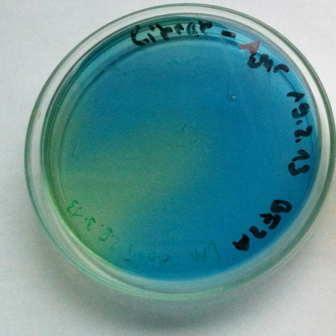 Serratia odorifera on Simmons citrate agar, showing a positive result (the microorganism has the ability to use citrate).